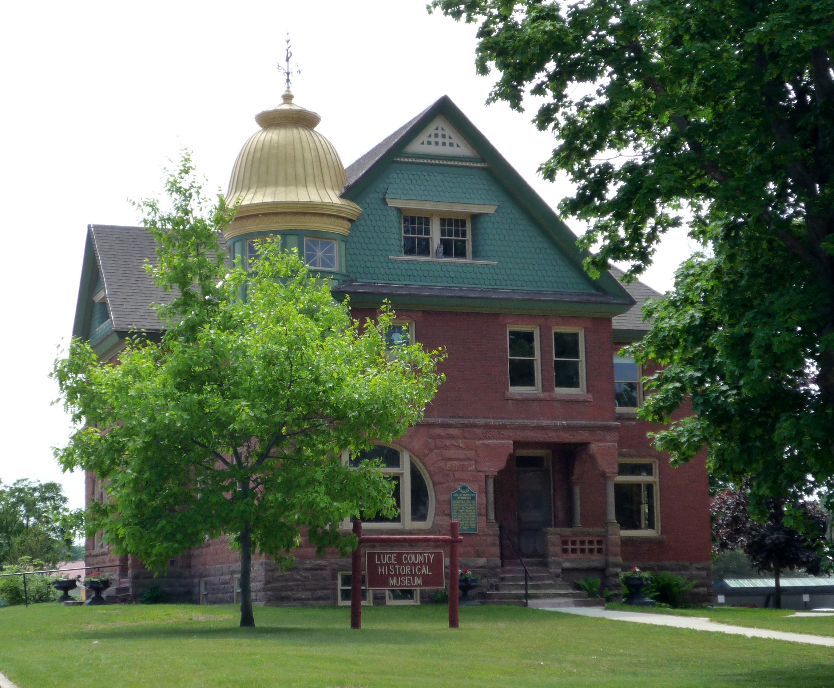 Luce County Historical Museum, housed in the historic 1894 sheriff's house and county jail, Newberry, Michigan, USA.